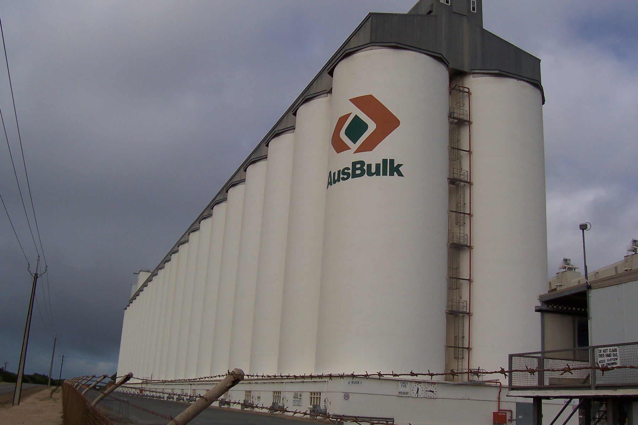 Some grain silos at Port Giles on Yorke Peninsula in South Australia.